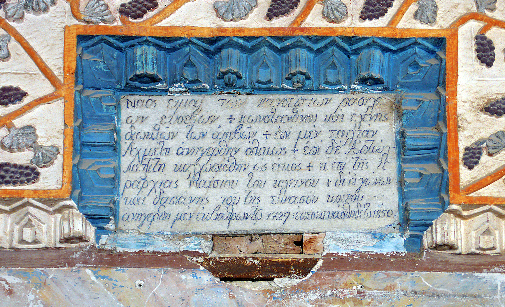 the Church of Aios Vasilos (?)